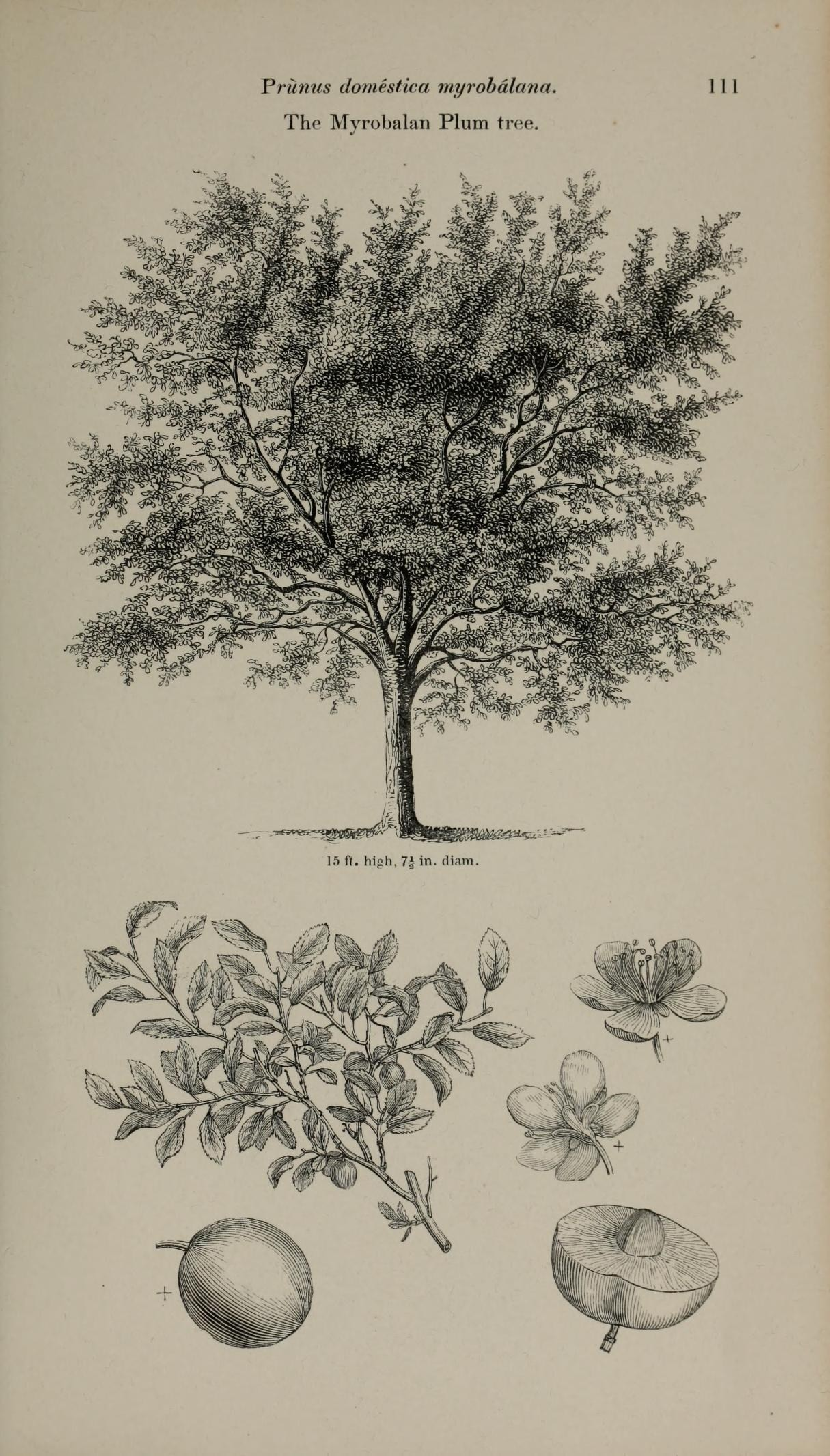 Pru?ius domestica myrobdlana. The Myrobalan Plum tree. Ill 15 ft. high, 1h in. .1i;tm.